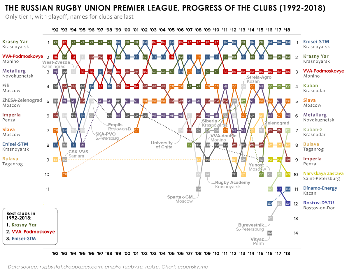 Russian Rugby union Premier League, progress of the clubs (1992-2018)